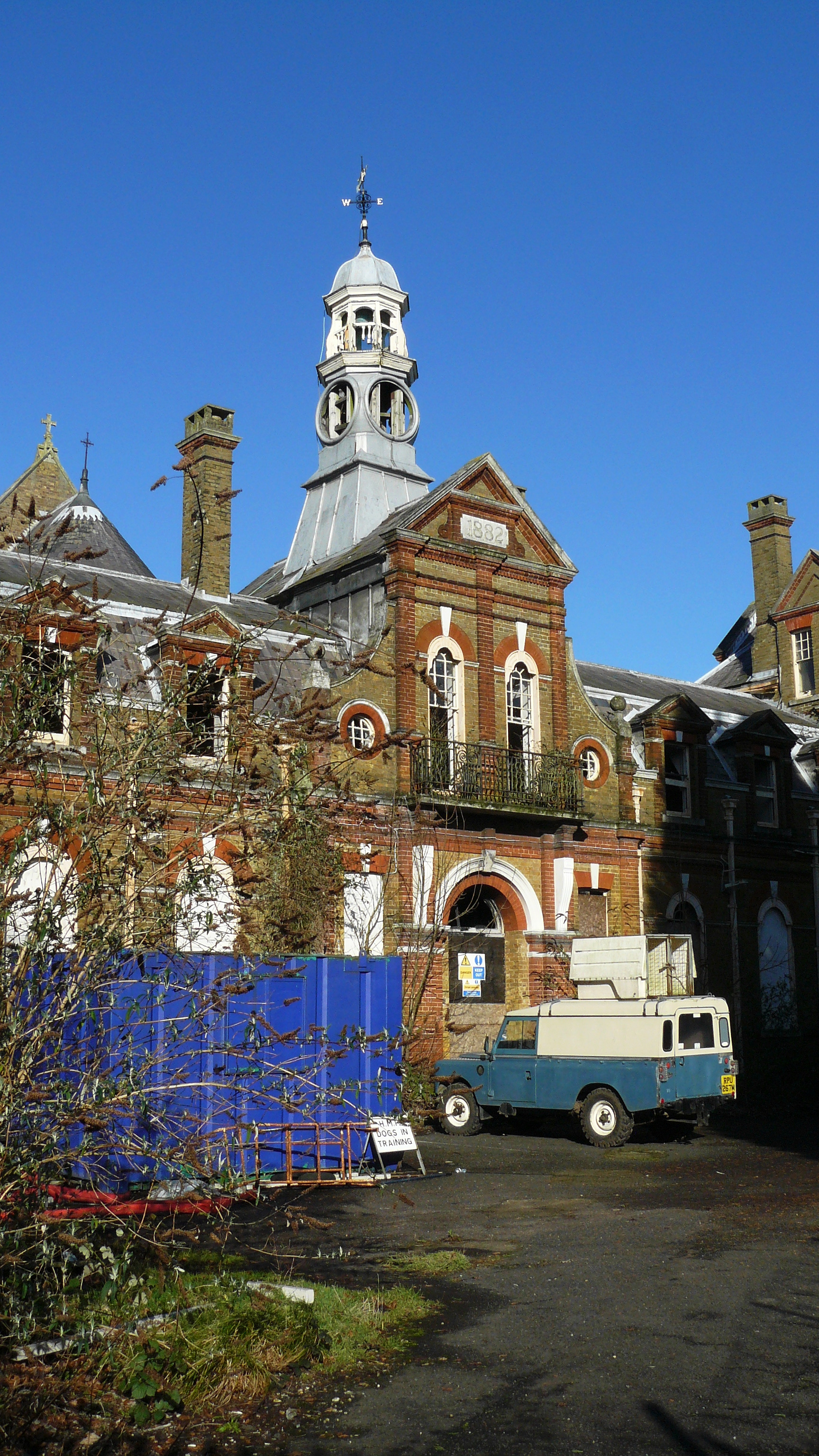 Cane Hill Asylum, Coulsdon View of the main entrance, whilst demolition was taking place on another part of the site.